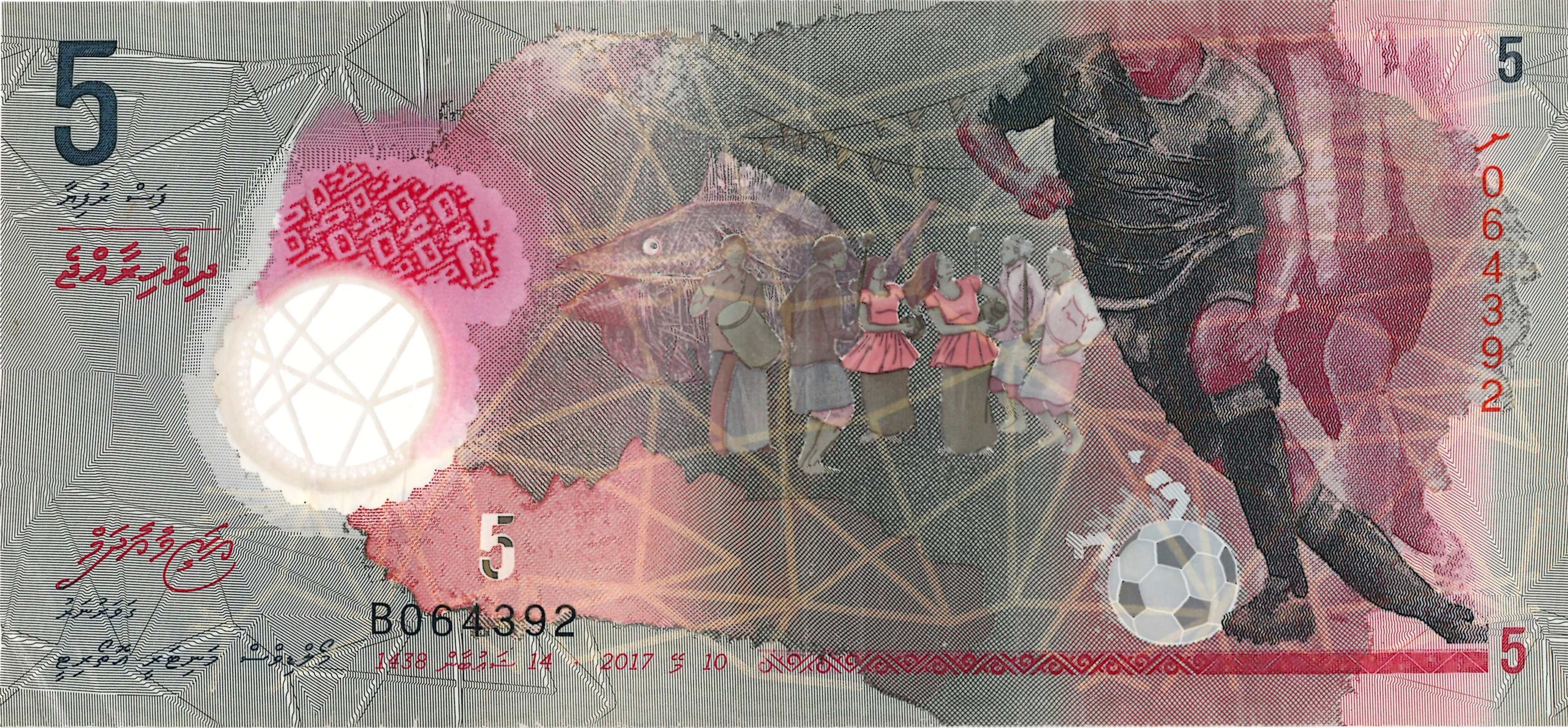 5 Maldives rufiyaa banknote, May 2017 series, obverse